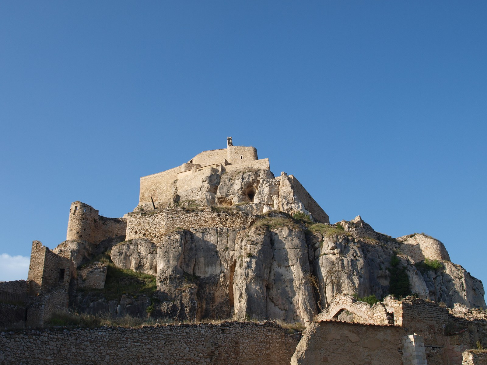 Castle of Morella, Spain